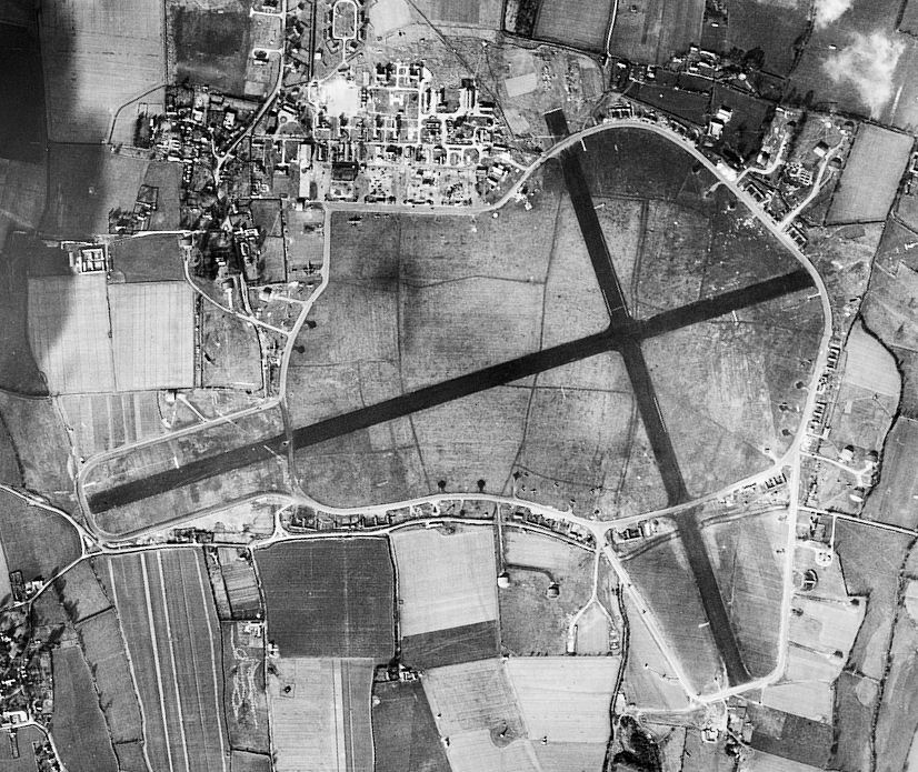 Aerial photograph of Tangmere airfield, 10 February 1944. Photograph taken by 7th Photographic Reconnaissance Group, sortie number US/7PH/GP/LOC178. English Heritage (USAAF Photography).